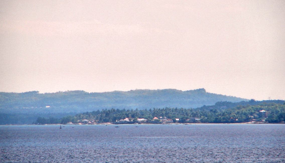 Maya, Daanbantayan, Cebu, the Philippines. Northern-most point of Cebu Island.